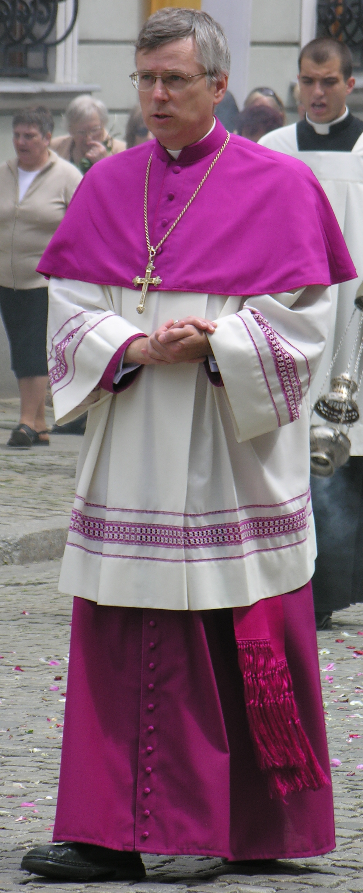 Wrocławski biskup pomocniczy Andrzej Siemieniewski